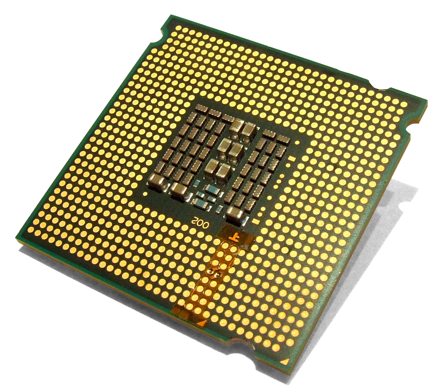 Intel Xeon E5450 "Harpertown", which has been modified to fit in the LGA775 socket. Several prerequisites are required for this to work: The mainboard and its chipset have to support the equivalent Core 2 Quad with respect to lithography (i.e. 65 or 45 nm generation), FSB speed and TDP. The BIOS may have to be patched with the microcodes for Socket 771 Xeons. A commercial mod sticker applied in the right position for electrical compatibility. Mechanical compatibility with LGA775. This can be achieved by altering the socket itself (two tabs have to be removed), or by cutting notches (top and bottom) into the processor PCB as seen on this example. The 771-to-775 mod is mainly performed for cost reasons. At the time of writing, used Xeons together with an inexpensive sticker shipped from China are generally much cheaper than high-end Core 2 Quads on the second-hand market, making this an attractive value-for-money proposition for Socket 775 systems still in use. For instance, the E5450 has the same specifications as the Q9650 and is the final upgrade path for low-end mainboards limited by the chipset (max. 1333 Mhz QP), VRM design (max. 95 W TDP) or both. Faster Xeons are available, but not every board can safely handle the faster front-side bus of 1600 Mhz QP and higher power requirements of 120-150 W.